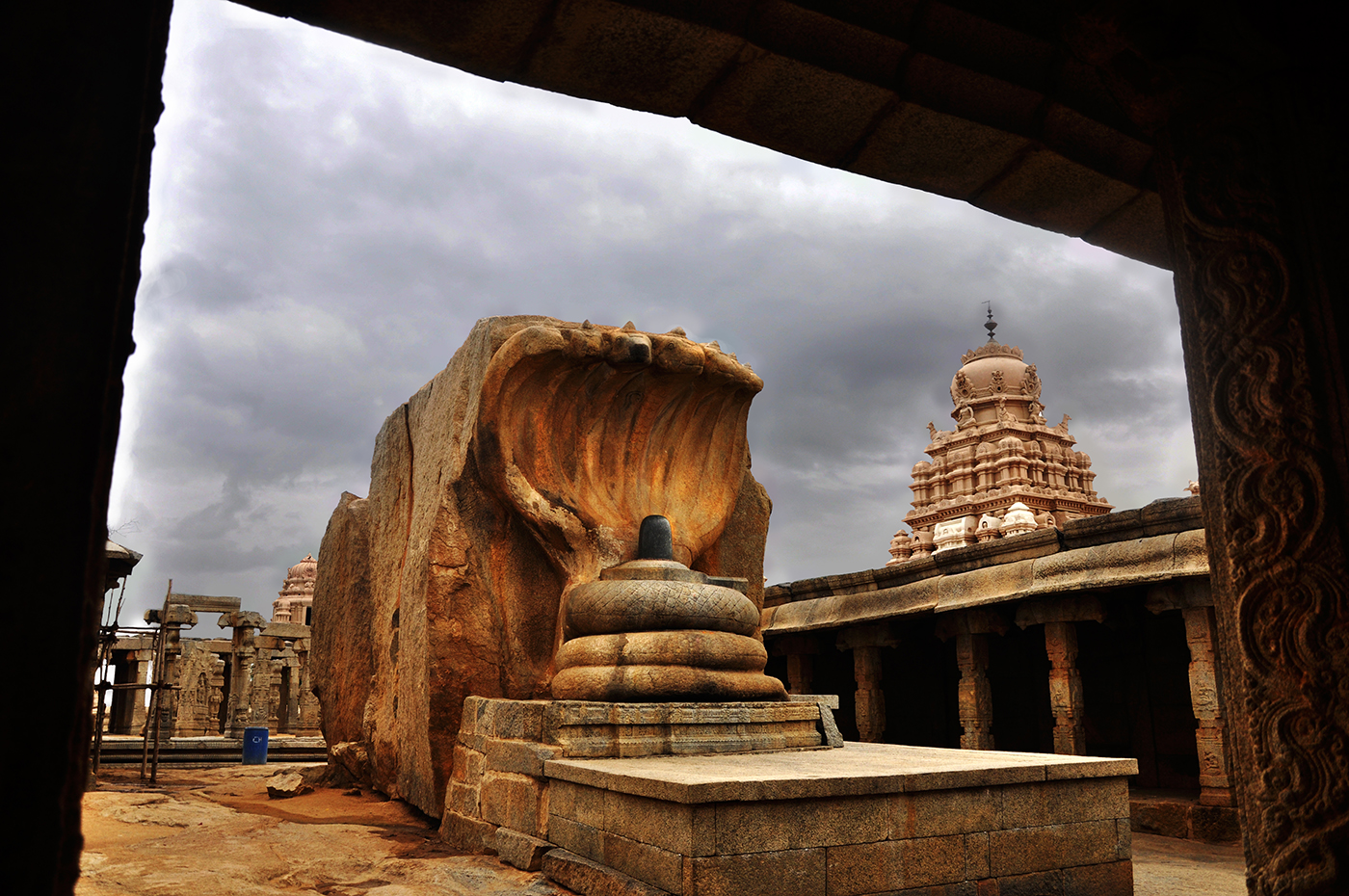 The naga linga sculpture is inside the Veerahbadreswara temple at Lepakshi in Andhra Pradesh, Hindupur was supposed to have been carved out by a man in an hour. This is about 15 feet in hight very massive shiva linga sculpture with naga Prabhavali